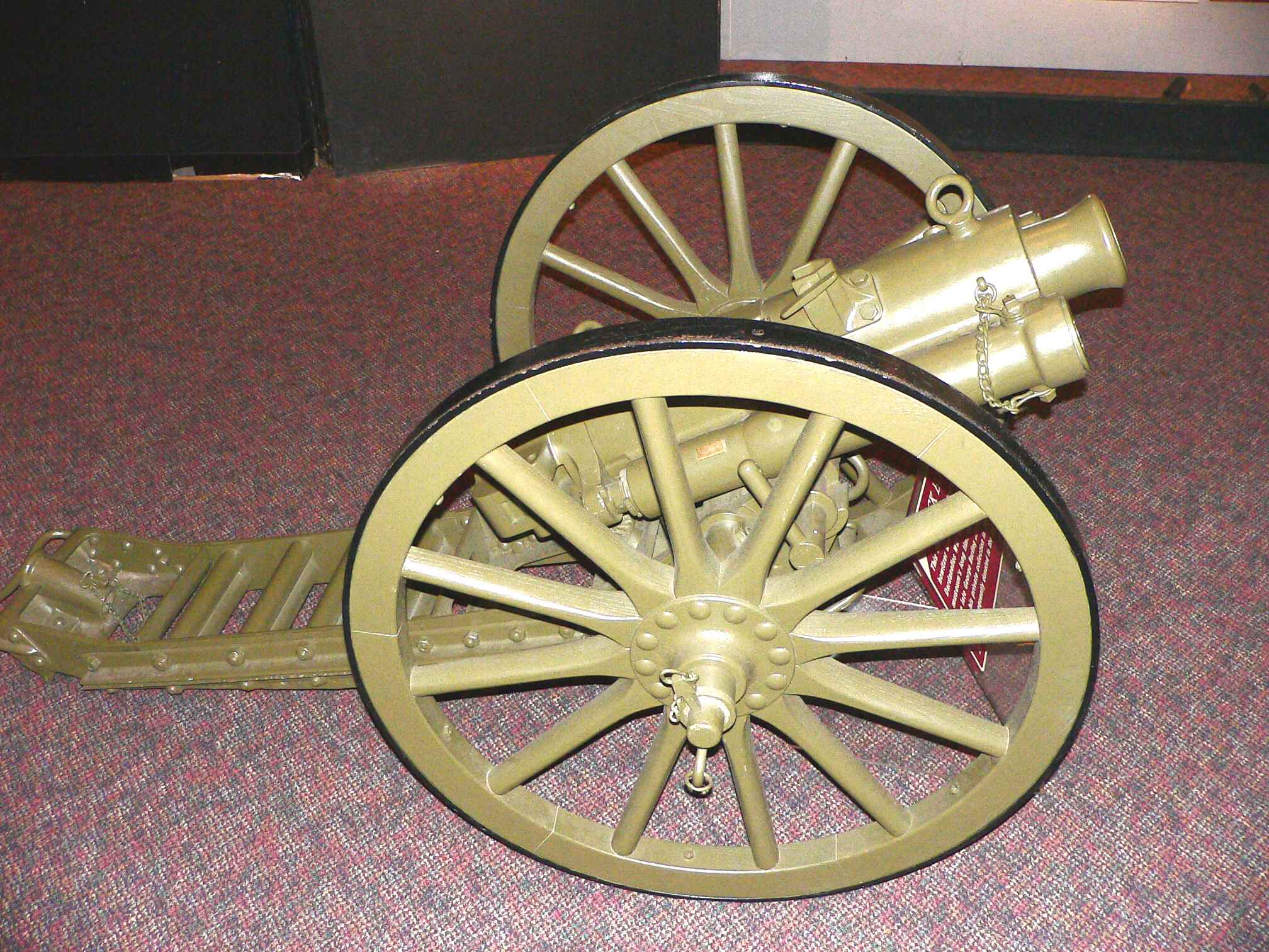 Modified version of an original Photograph (Image:Pack Howitzer3.jpg) of QF 2.95 inch Mountain Gun taken by Mark Pellegrini at the United States Army Ordnance Museum (Aberdeen Proving Ground, MD) on August 14, 2007. In this version I have merely artificially increased brightness and contrast to bring out more detail.